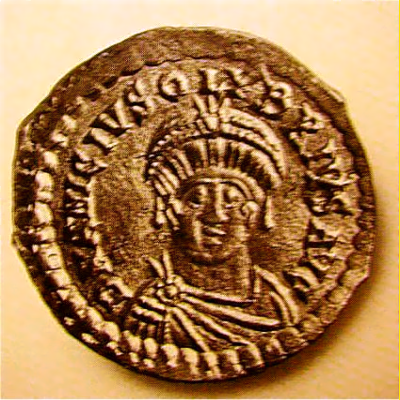 Roman Emperor Anicius Olybrius D N ANICIVS OLYBRIVS AVG